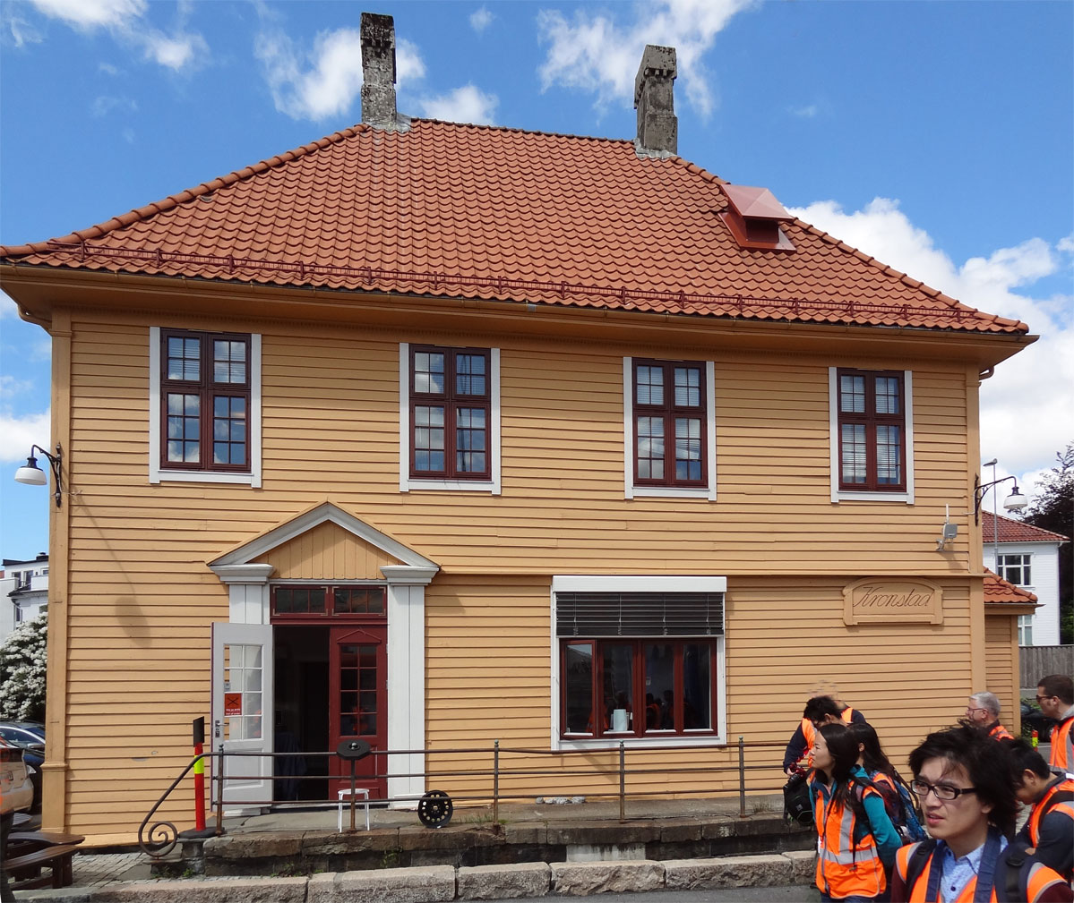 Station building in Kronstad, of the old line to Voss, used until 1964 - from 2010 the control centre of the Bybane